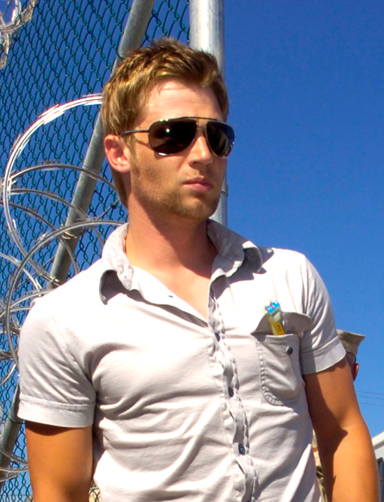 Mike Vogel, actor from the movie “Cloverfield,” enters Joint Task Force Guantanamo’s Camp 4 during their tour of the JTF’s detention facilities, June 9. Vogel displayed his gratitude to Troopers by shaking hands and signing autographs in between camp tours as part of their United Service Organization visit.